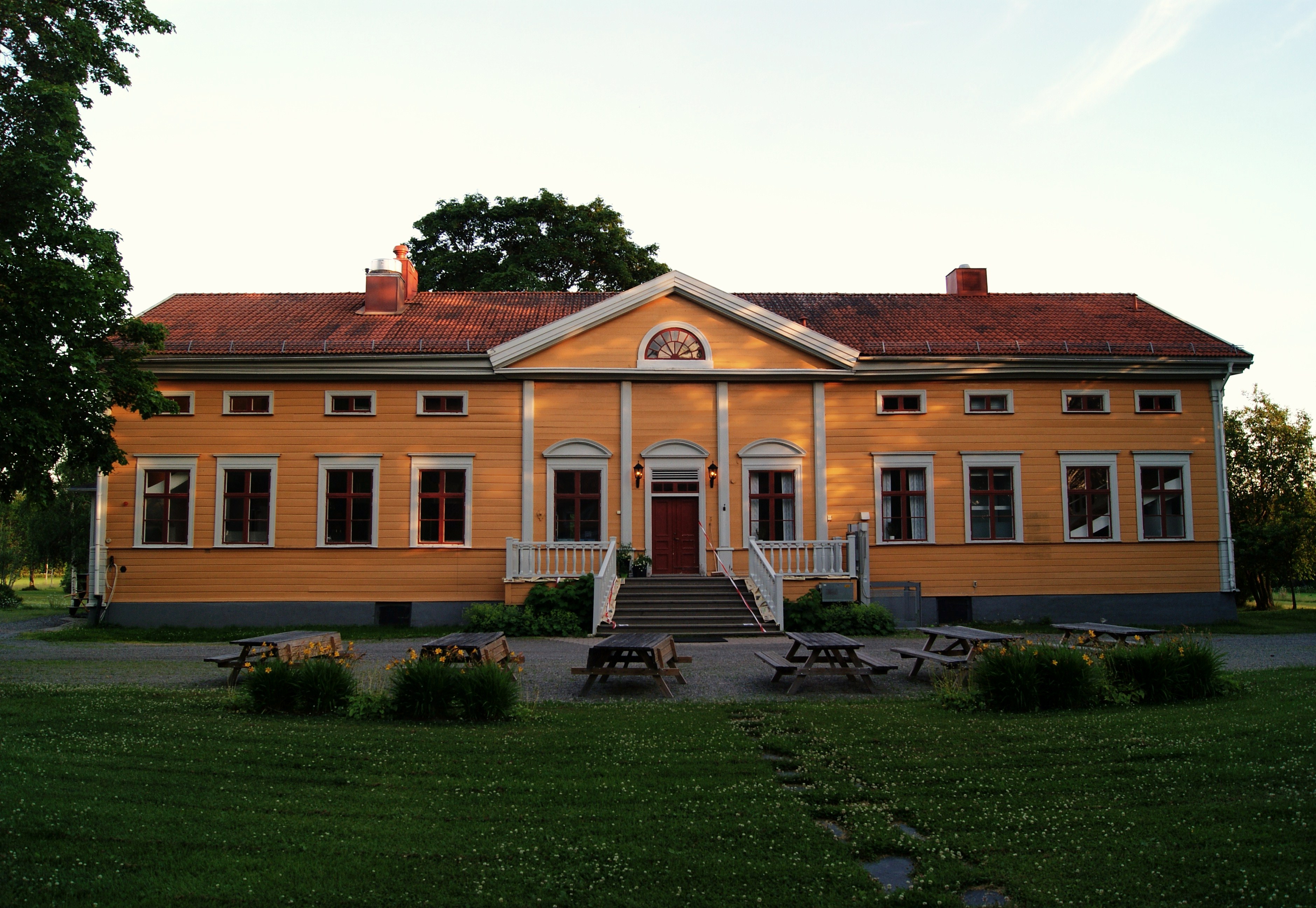 Dalkarlså folkhögskola (Dalkarlså folk high-school) uses the old buildings belonging to Dalkarlså herrgård (Dalkarlså mansion). The folk high-school's canteen is located in the main building.